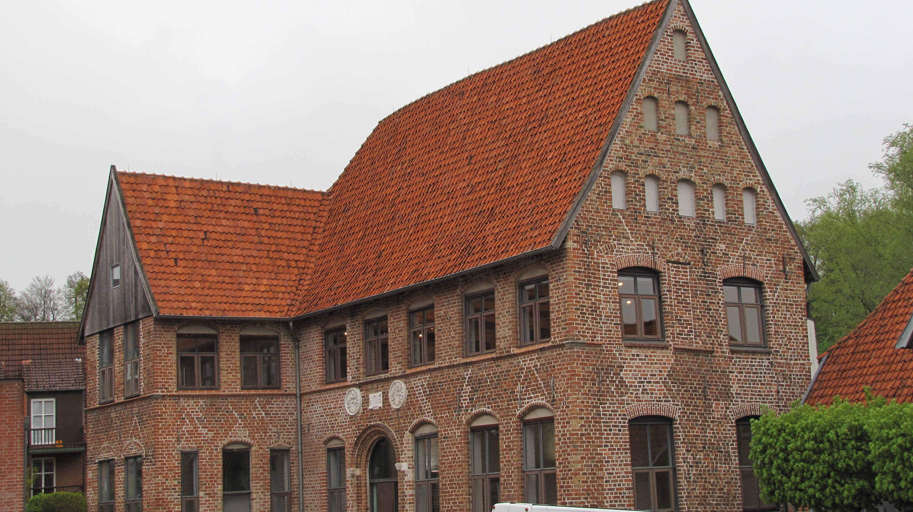 Stadthauptmannshof in Mölln